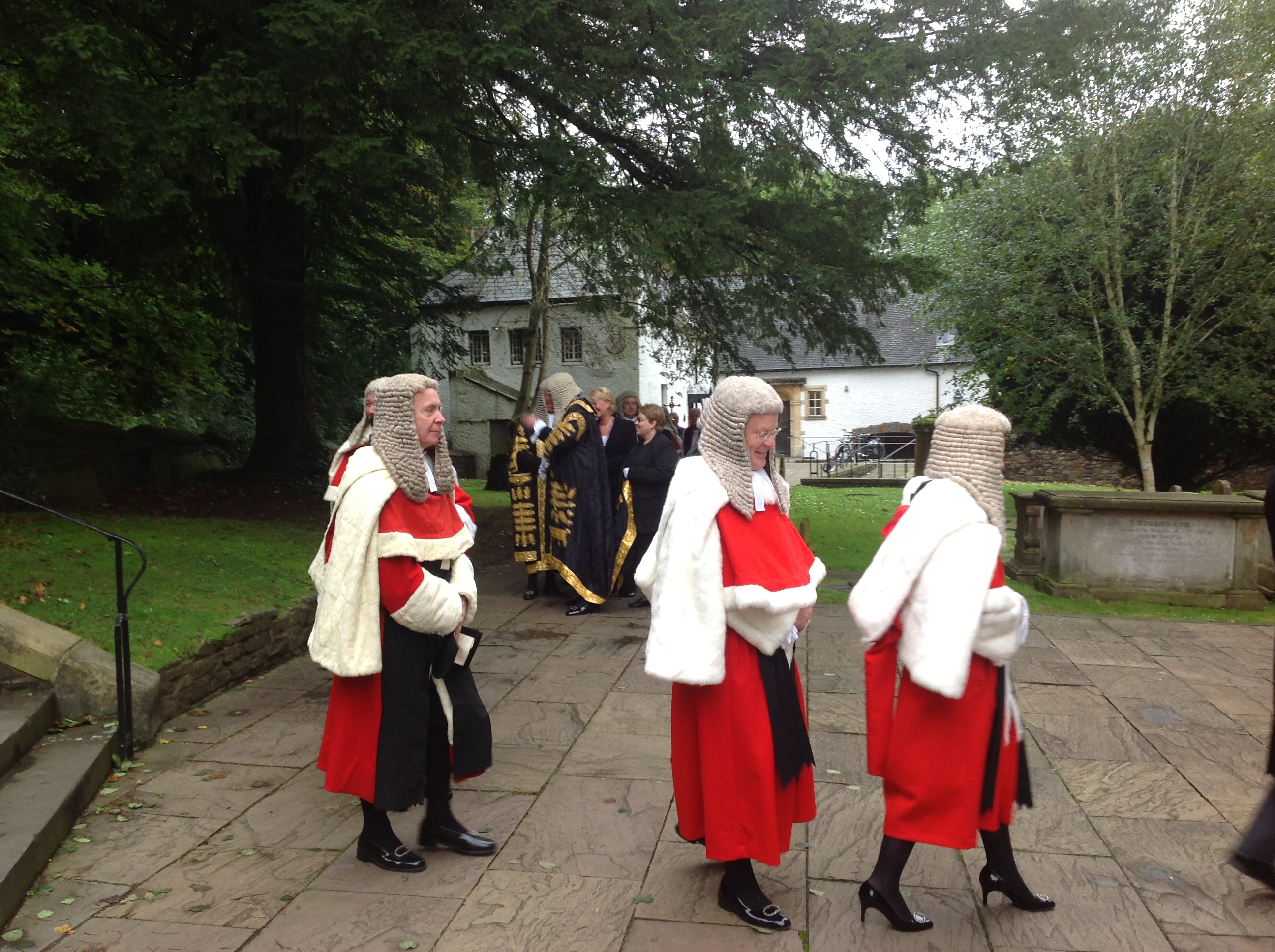 The Legal Service for Wales at Llandaff Cathedral. 13 October 2013.